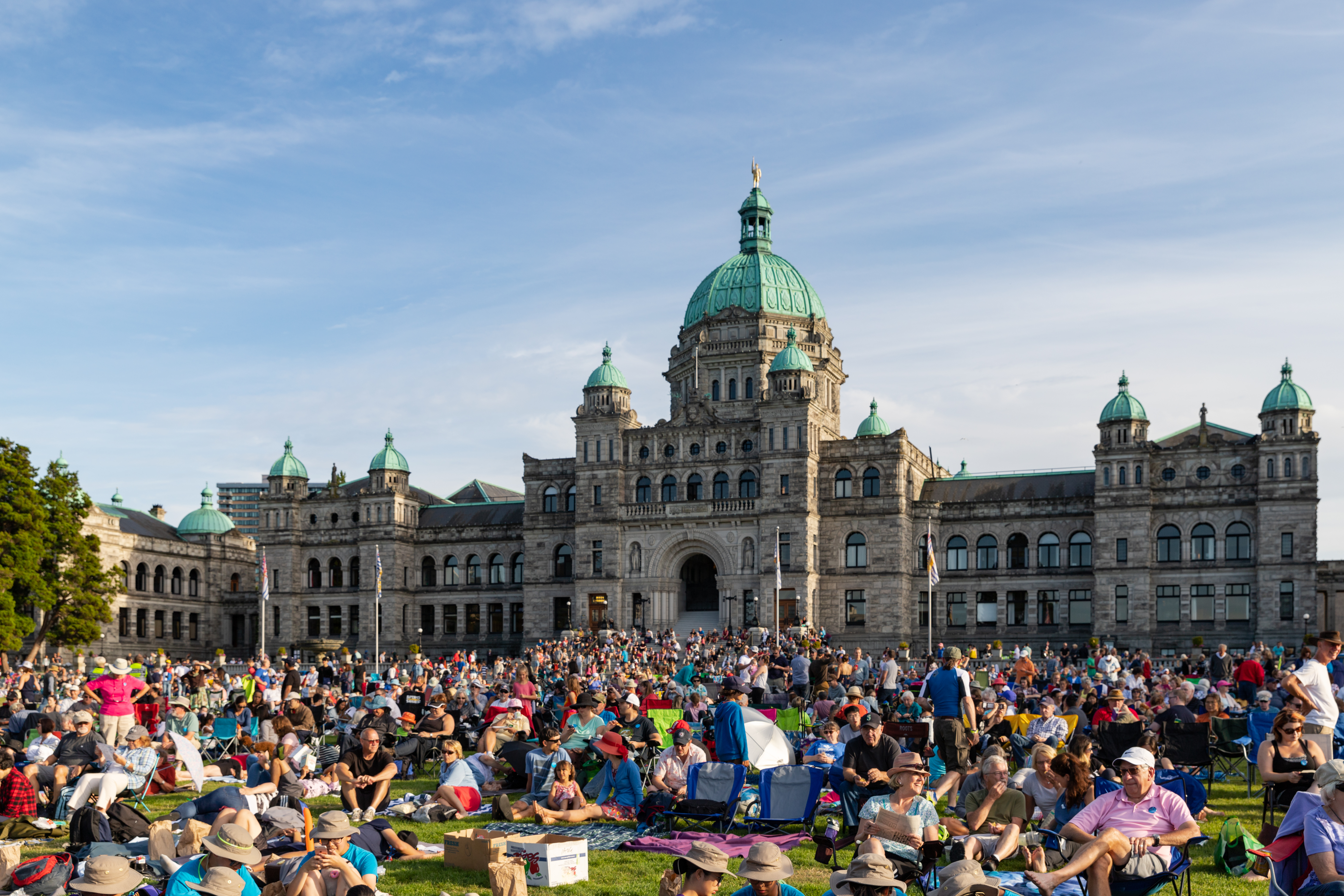 Victoria public holiday on Vancouver island